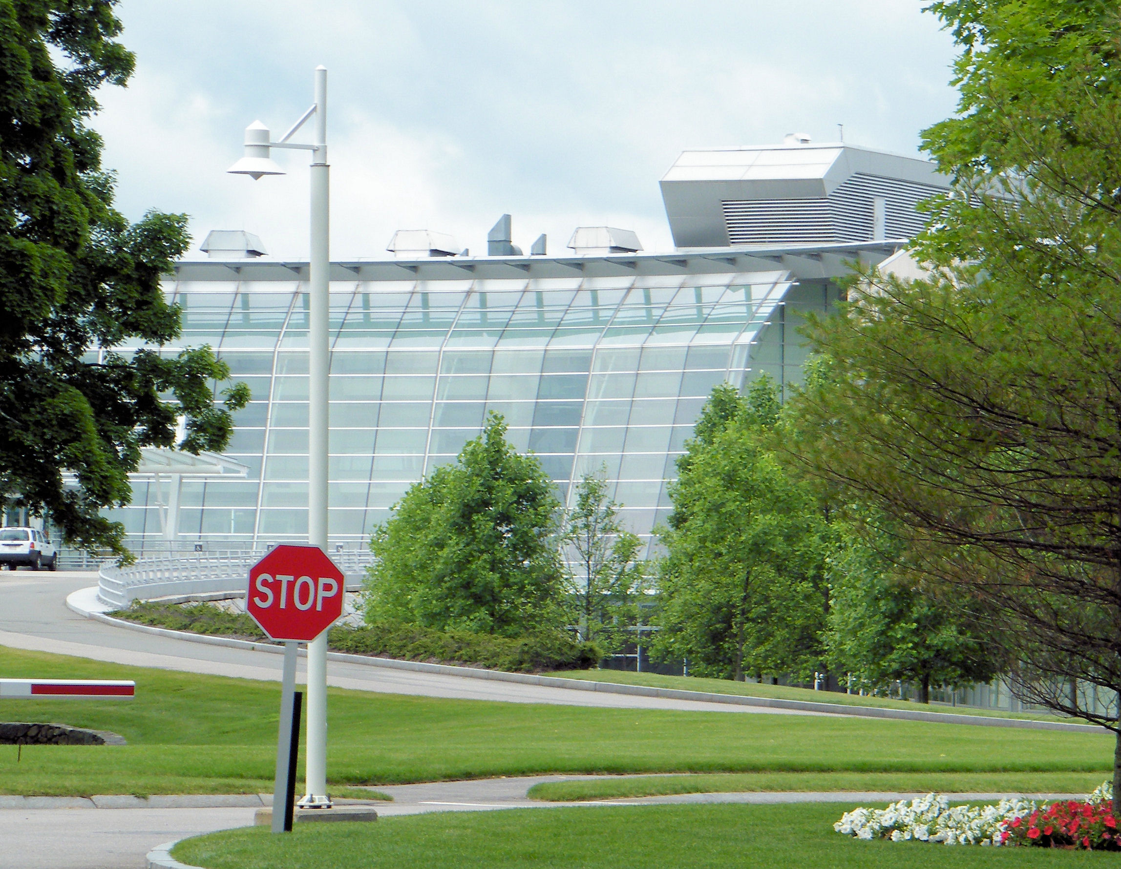 Reebok world headquarters in Canton, as seen from the adjacent public road, Royall Street, through a long zoom lens.